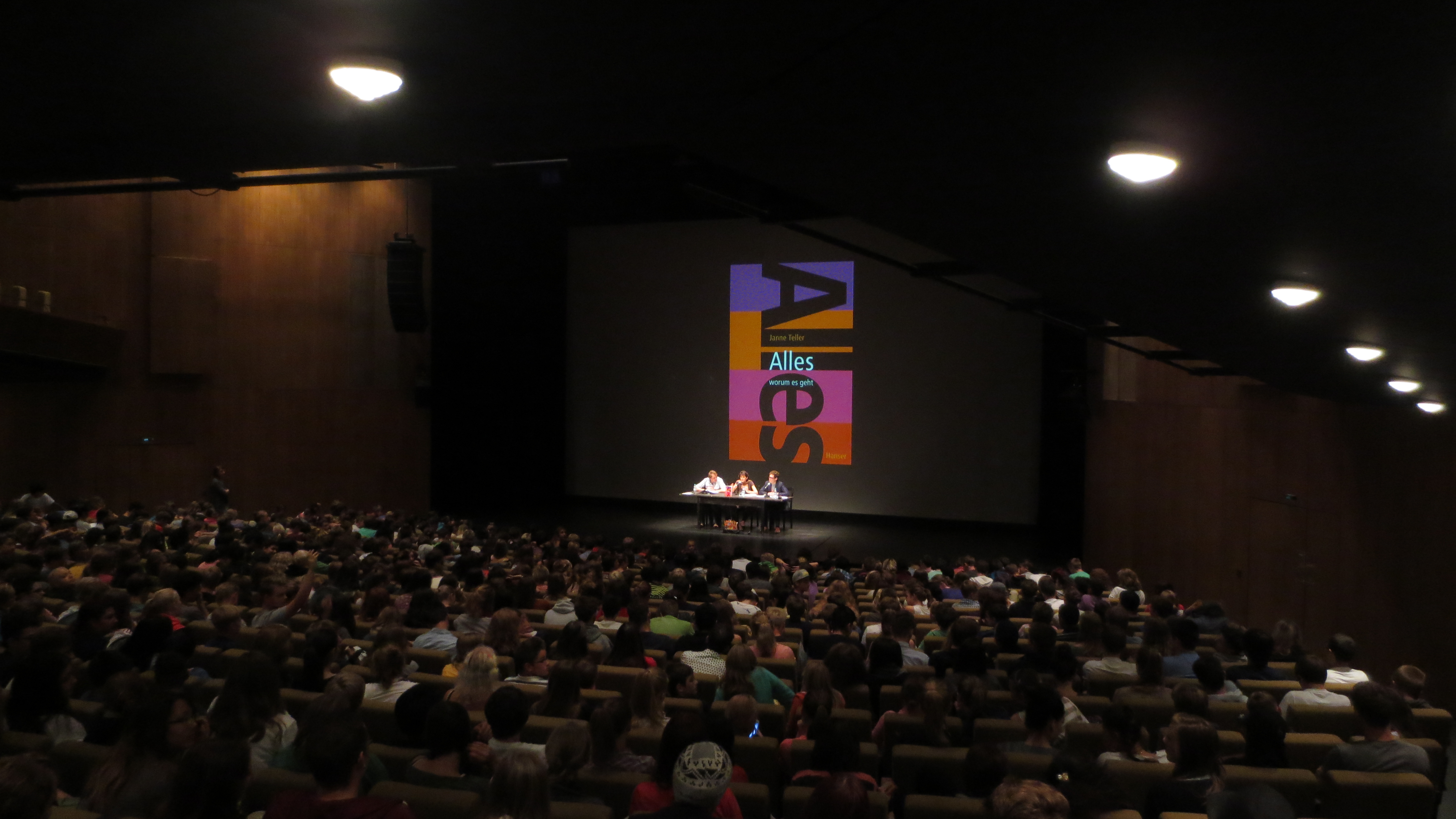 13. internationales literaturfestival berlin - Haus der Berliner Festspiele - Große Bühne - Weltpremierenlesung aus "Alles - Worum es geht" von Janne Teller mit Schauspieler Matthias Scherwenikas, Autorin Janne Teller und Moderator Philip Geisler